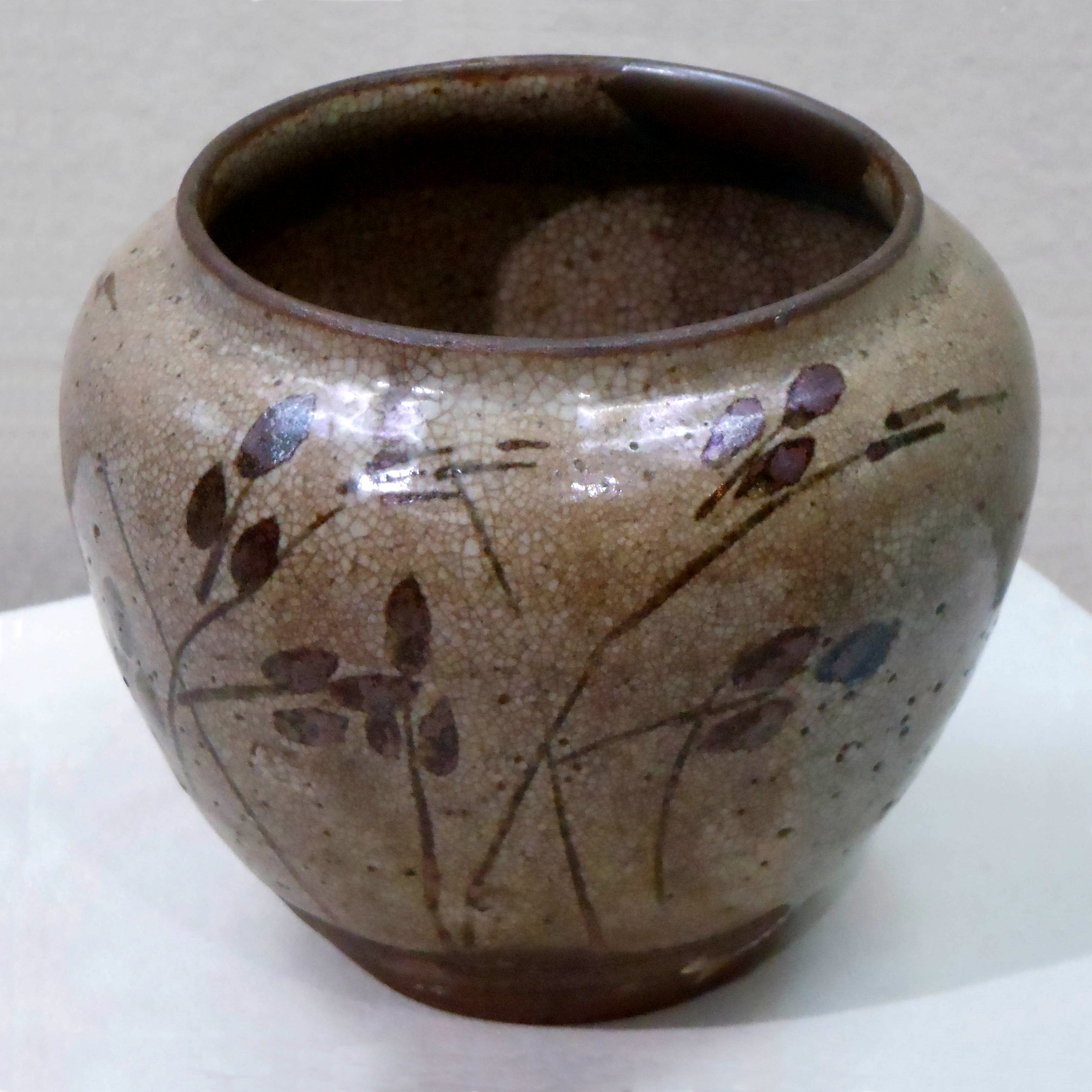 Name: Tetsue-Hagimon-Tsubo (Egaratsu) jar with bush clover design, underglaze iron-brown, Egaratsu type, stoneware.) Karatsu ware Collection No.:0029-54 Era: 1590-1610s Made in: Hizen Collected, displayed by: Kyushu Ceramic Museum